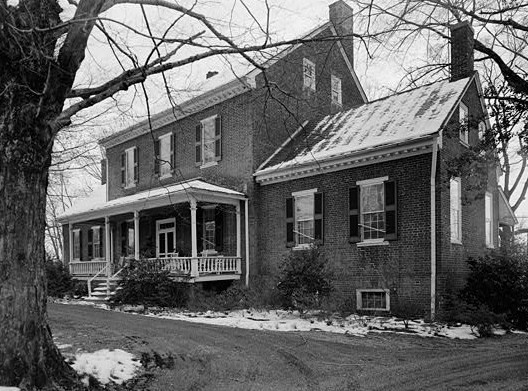 Ayr Mount, Saint Mary's Road, Hillsborough (Orange County, North Carolina) - cropped This file comes from the Historic American Buildings Survey (HABS), Historic American Engineering Record (HAER) or Historic American Landscapes Survey (HALS). These are programs of the National Park Service established for the purpose of documenting historic places. Records consist of measured drawings, archival photographs, and written reports. When reusing please credit: Library of Congress, Prints & Photographs Division, NC,68-HILBO,18-2 This tag does not indicate the copyright status of the attached work. A normal copyright tag is still required. See Commons:Licensing. This work is in the public domain in the United States because it is a work prepared by an officer or employee of the United States Government as part of that person’s official duties under the terms of Title 17, Chapter 1, Section 105 of the US Code. Note: This only applies to original works of the Federal Government and not to the work of any individual U.S. state, territory, commonwealth, county, municipality, or any other subdivision. This template also does not apply to postage stamp designs published by the United States Postal Service since 1978. (See § 313.6(C)(1) of Compendium of U.S. Copyright Office Practices). It also does not apply to certain US coins; see The US Mint Terms of Use. This file has been identified as being free of known restrictions under copyright law, including all related and neighboring rights. Object location36° 04′ 37″ N, 79° 05′ 30″ W